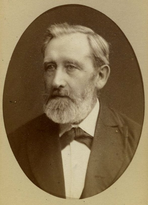 Herre. Harald Paetz, Kbh.